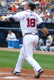 Picture I took of Jarrod Saltalamacchia on 6-5-07 21:34, 7 June 2007 . . Chrisjnelson . . 207×306 (134,506 bytes)